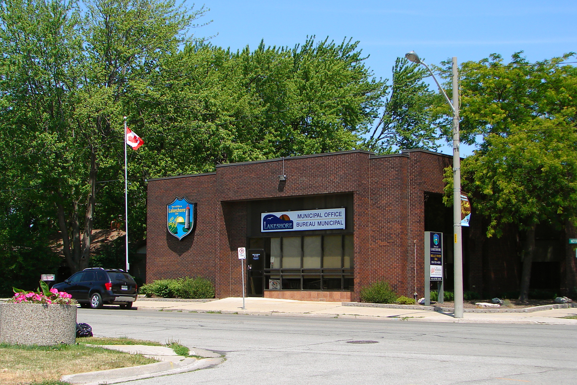 Town Hall of Lakeshore, Ontario, Canada